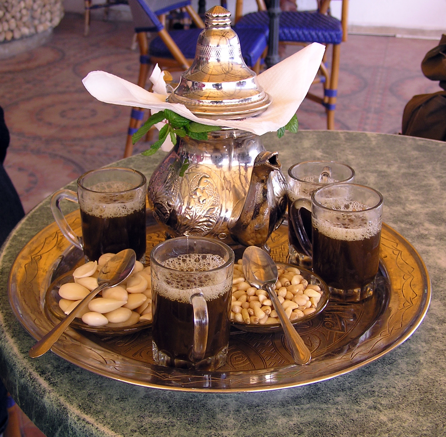 Tunisian mint tea with pine nuts or almonds.